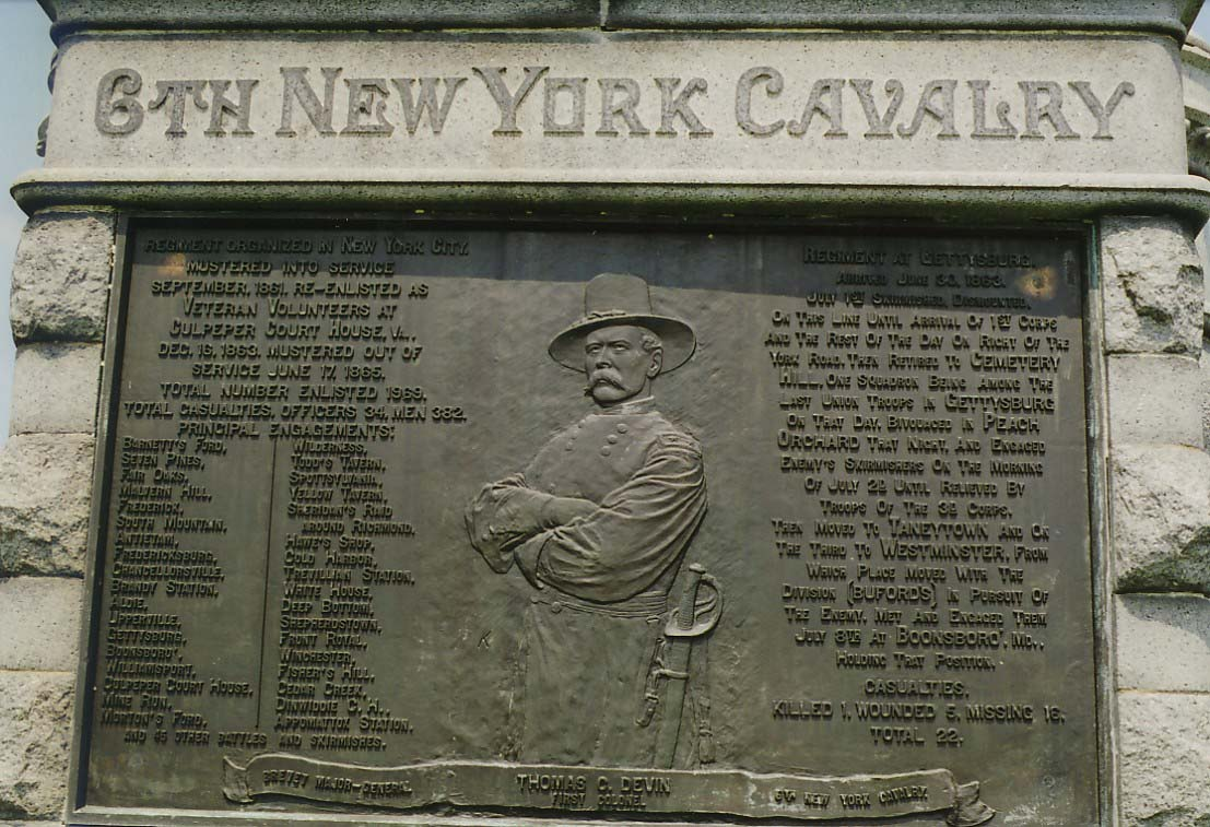 a bas relief of Thomas Devlin by James E Kelly at Gettysburg battlefield